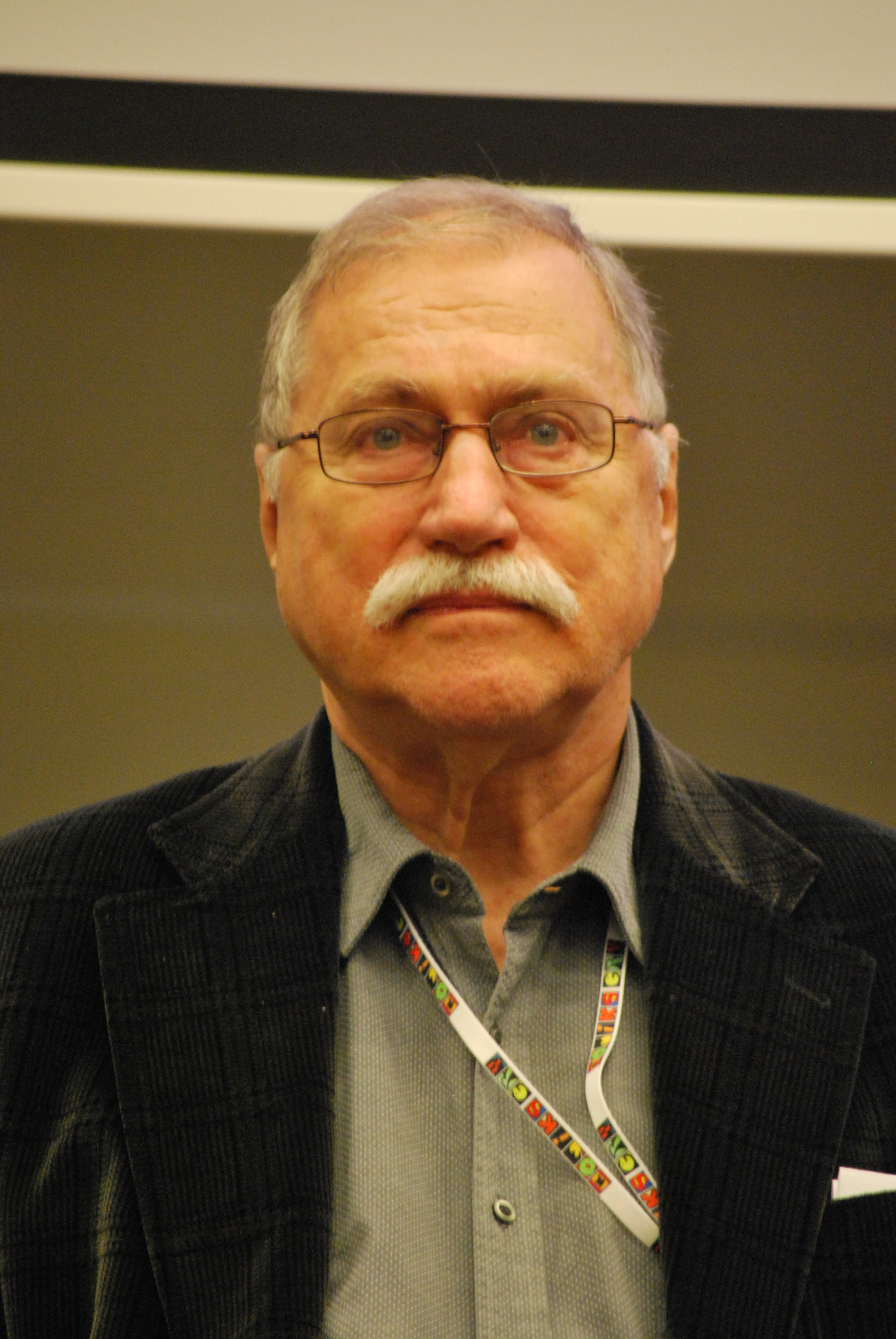 Lech Jęczmyk portrait, Festival of Comics in Łódź 2012